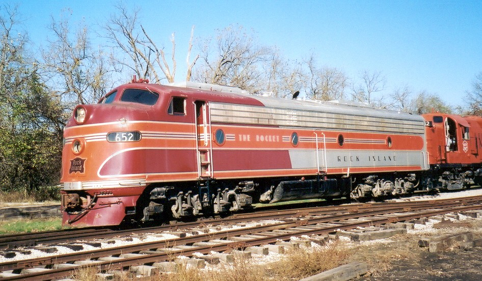 Rock Island (CRIP) locomotive #652 Currently privately owned and operated by the Midland Railway of Baldwin City. EMD model E8A – built in April, 1952 “Rocket” maroon, orange, and aluminum paint scheme Photo taken by Russell Meier on November 6, 2004 south of Baldwin City, Kansas, on the Midland Railway. This was a photo runby for participants of the TRAIN convention charter. This image was scanned from a Kodak Max Versatility ASA 400 print. The photo was cropped, and glare reduced before uploading to Wikipedia.